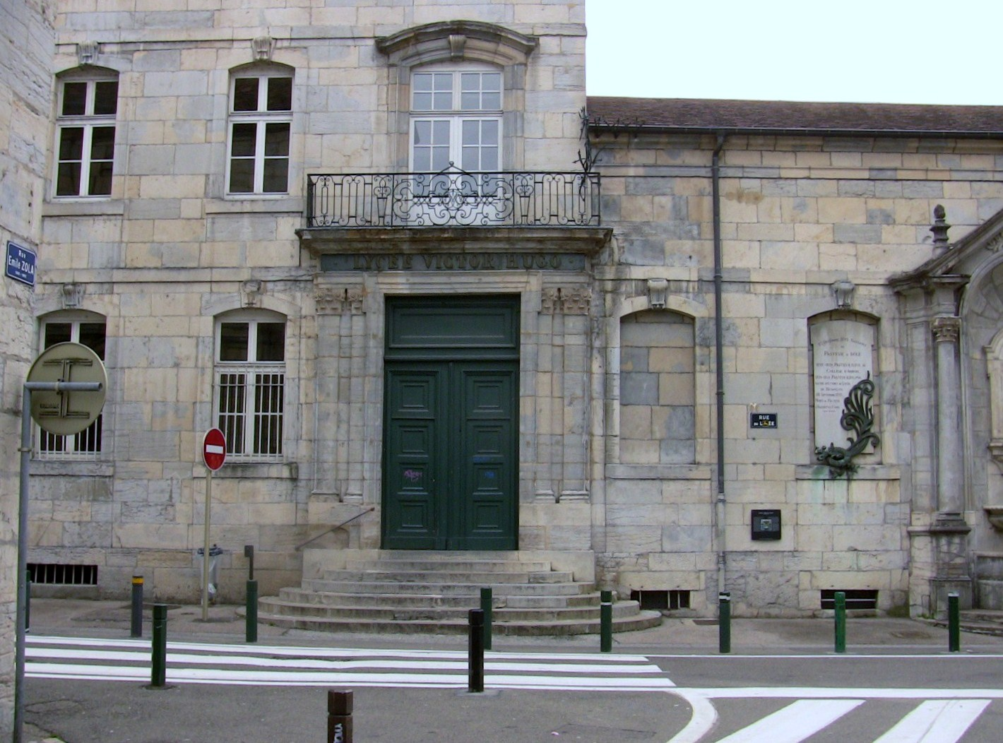 Entry of Voctor Hugo school, located in Besançon (Doubs, France)